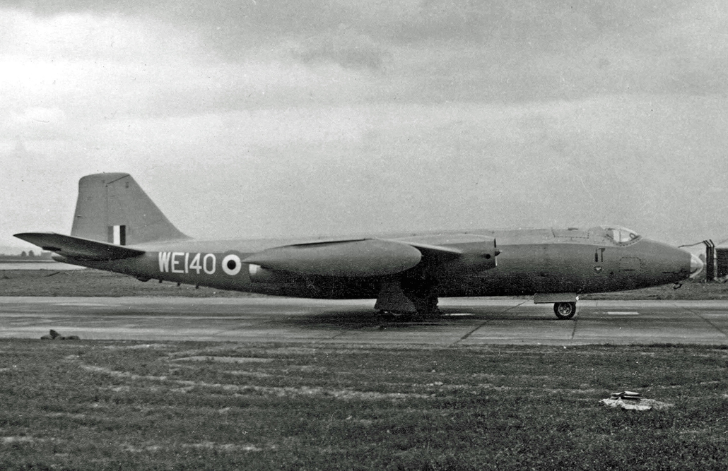 English Electric Canberra PR.3 WE140 of 540 Squadron RAF at London Heathrow airport